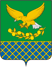 Slavyansky rayon (Krasnodar krai), coat of arms